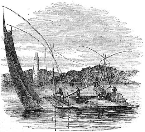 Manila fishermen, early 1800s. Original caption: Pêcheurs de Manille. From Aventures d'un Gentilhomme Breton aux iles Philippines by Paul de la Gironiere, published in 1855.